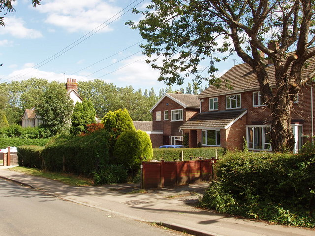 Houses in Littleworth, near Wheatley. These are on the Old Road over Shotover Hill to Oxford